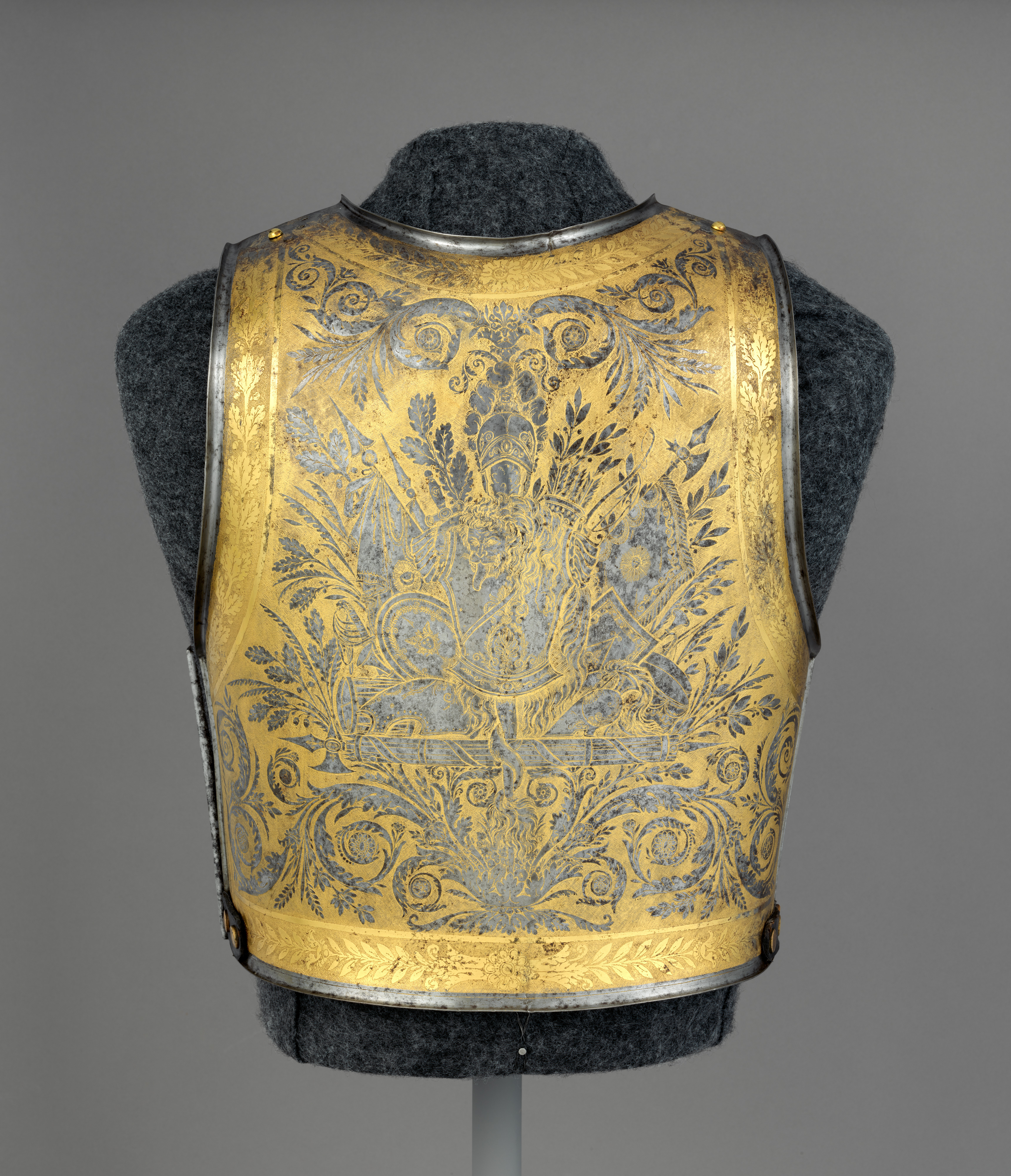 French, Klingenthal, Alsace; Cuirass; Armor Parts-Cuirasses